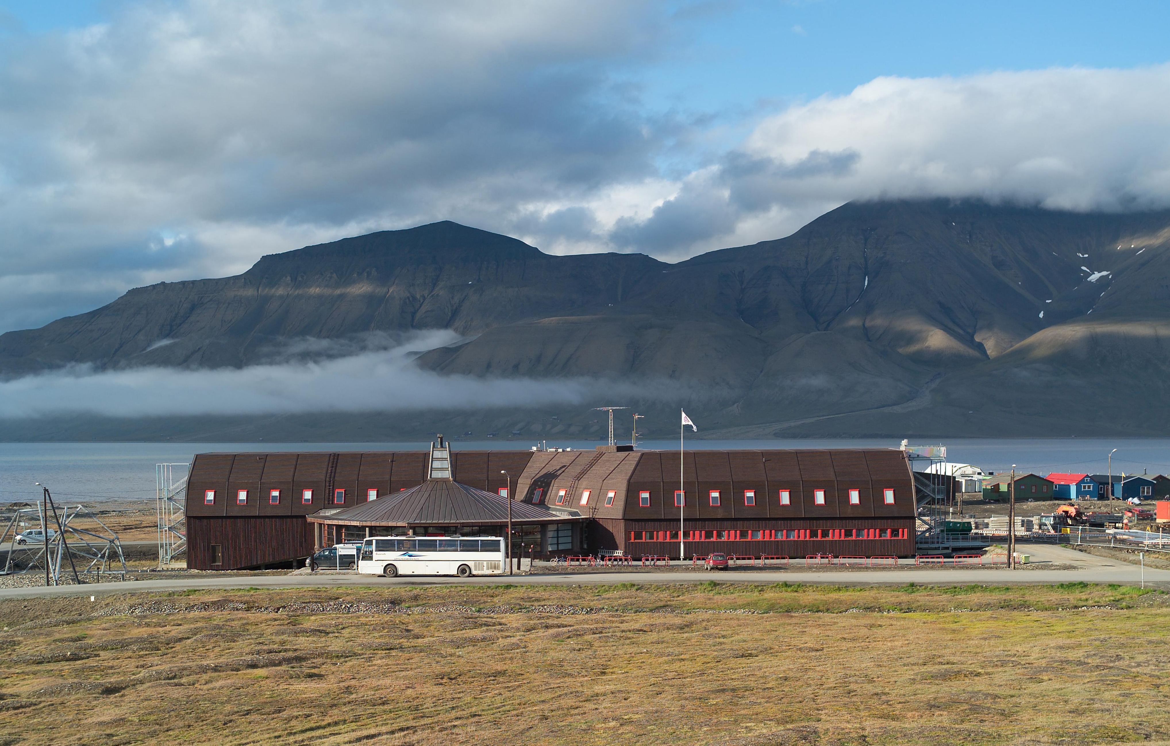 University Centre in Svalbard, part of the University of the Arctic.